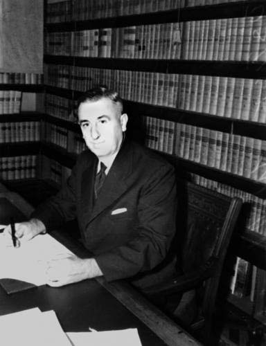 William Webb, photographed 14 March 1940, as the newly appointed Chief Justice of Queensland.